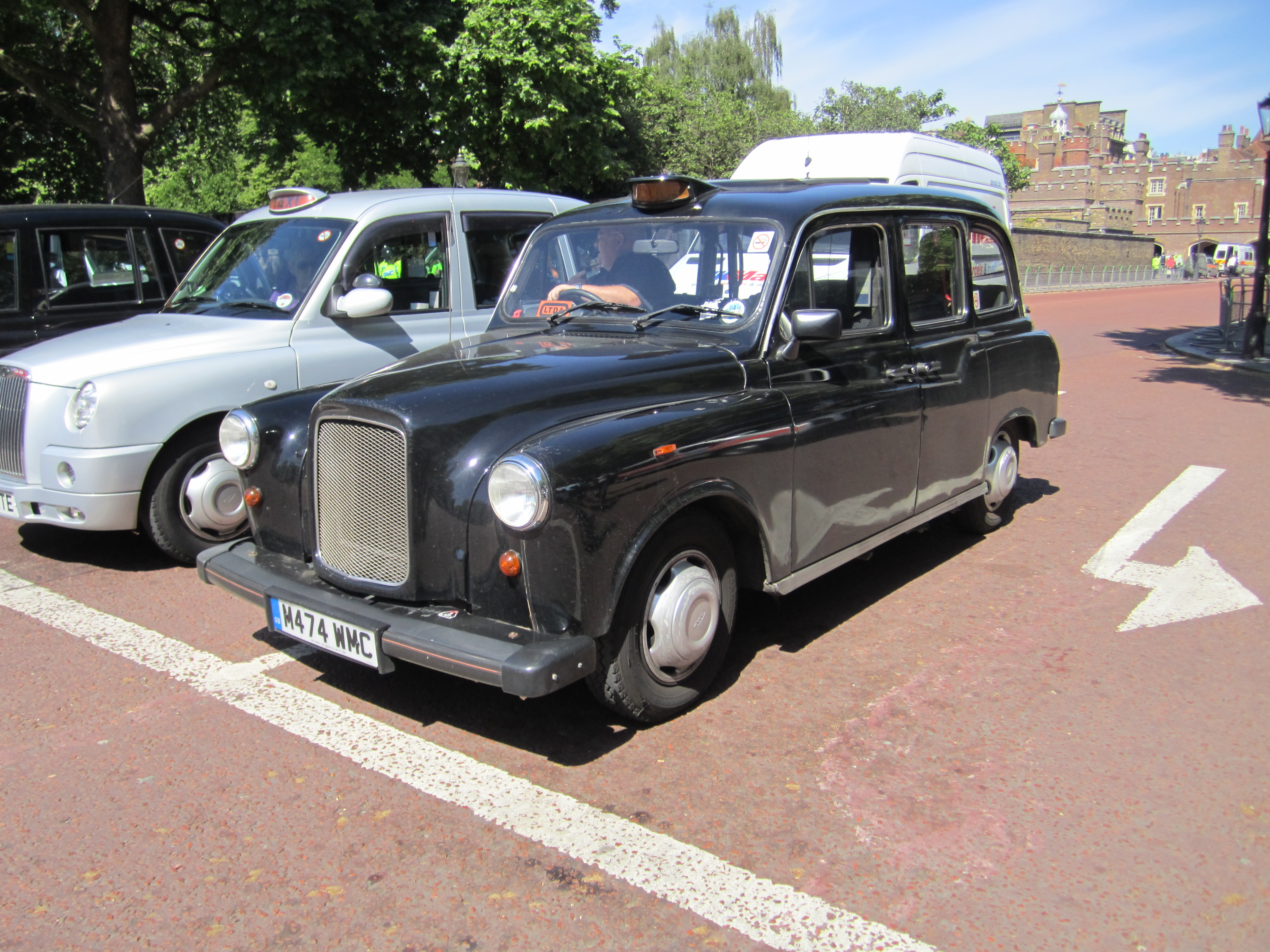 The FX4 replaced the FX3 in 1958 and went through quite a few changes until replaced by the more modern looking TX1 in 1997. (a TX1 is next to the FX4 in the photo) From 1958 it ran an Austin 2178cc diesel engine. from 1962 a 2199cc petrol engine was also available In 1969 the roof mounted indicators (like rabbits ears) were replaced by conventional ones. In 1971 the Diesel engine was increased to 2520cc 1973, the petrol engine gone, it got rubber overriders and push button door handles In 1982 Austin was taken over by British Leyland, so now the Land Rover 1186cc diesel engine was used. (the FX4R) Capacity increased to 2495cc in 1985 Larger 5 passenger body in 1987 (FX4S-Plus) In 1989 the 2664cc Nissan diesel was used.